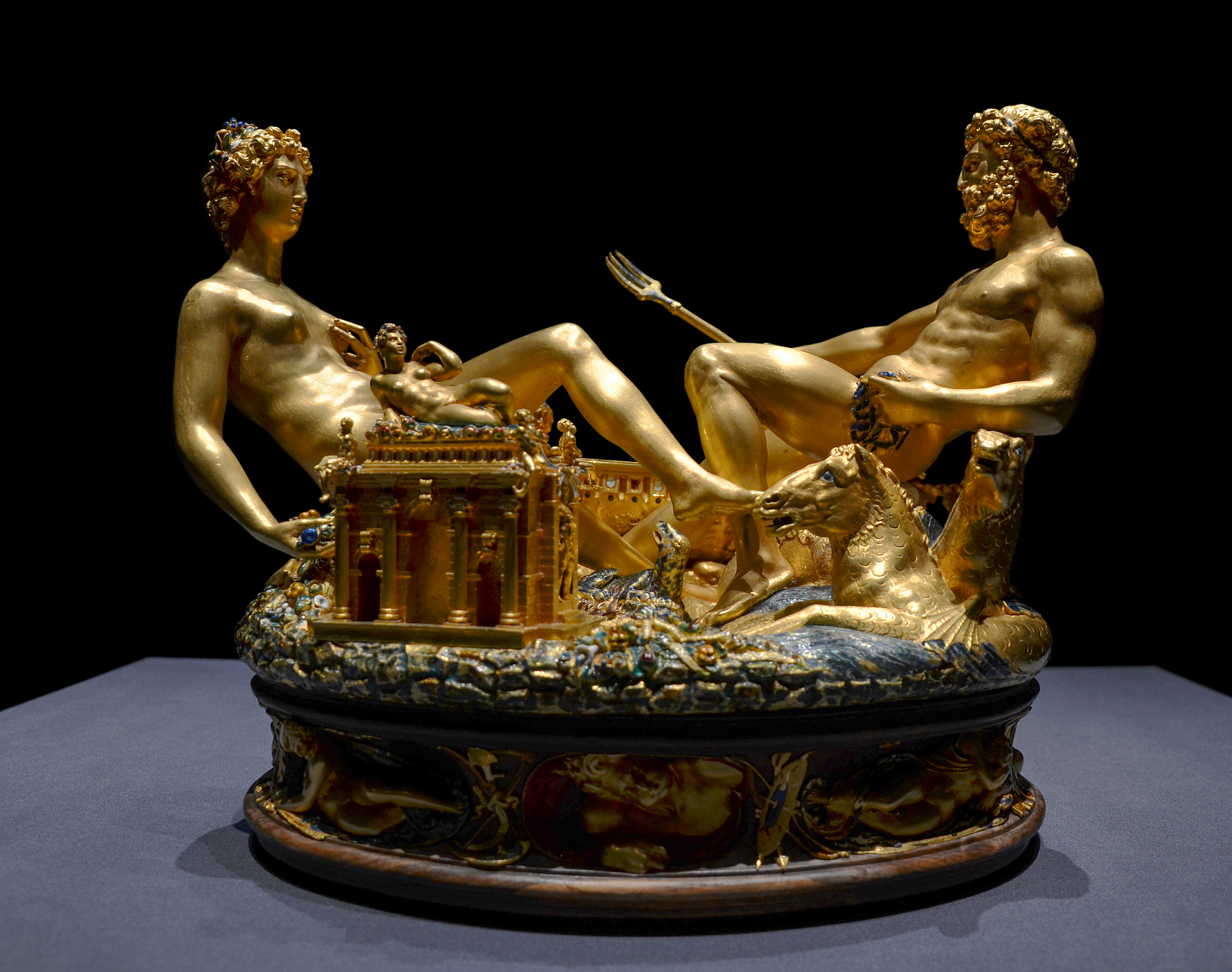 The "saliera" ( saltcellar in Italian ) made in 1543 for Francis I of France by Benvenuto Cellini ( 1500-1571). Part-enameled gold. Now in the Kunsthistorisches Museum in Vienna.